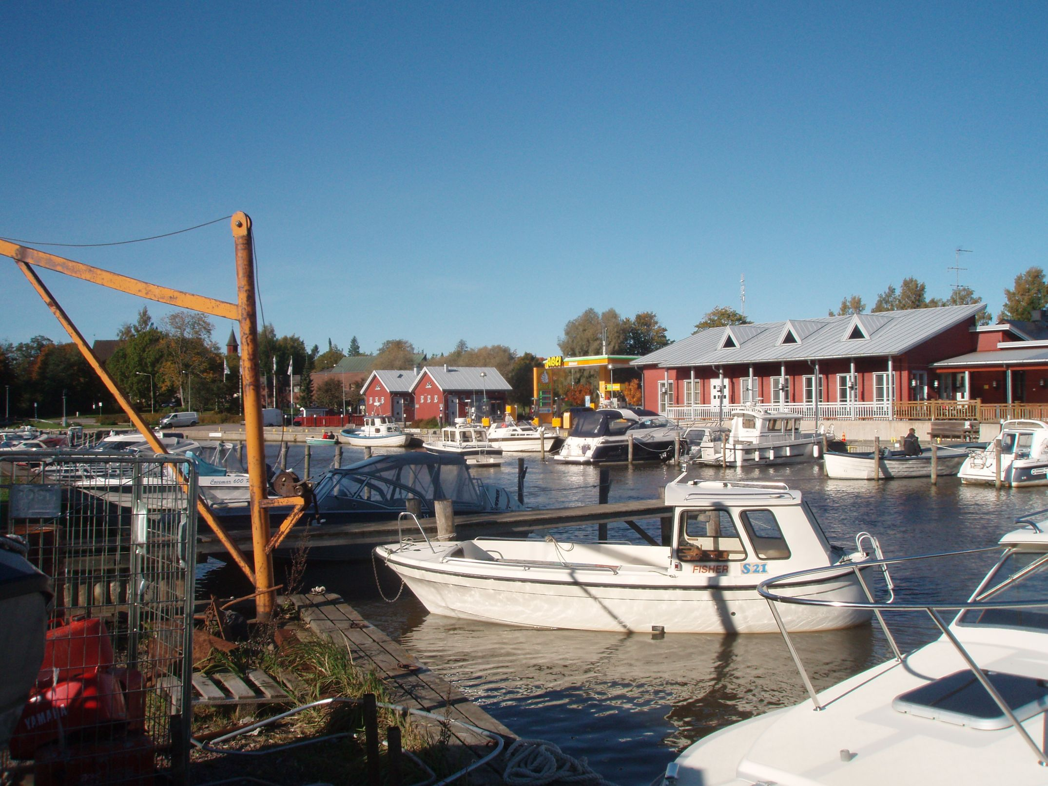 The marina at Ingå river mouth with cafe and fuel station